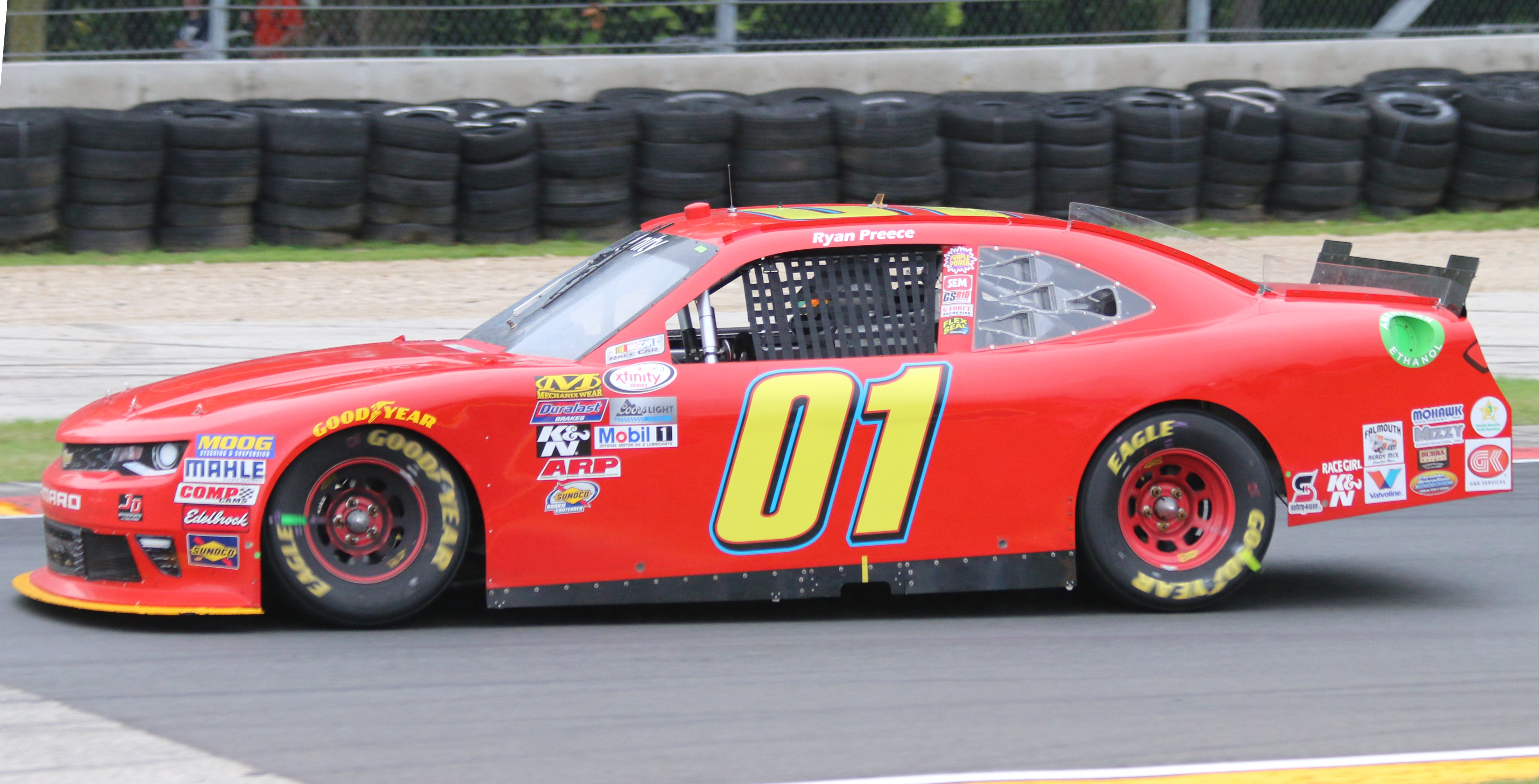 The Chevrolet Camaro of Ryan Preece at the NASCAR Xfinity Series Road America 180.